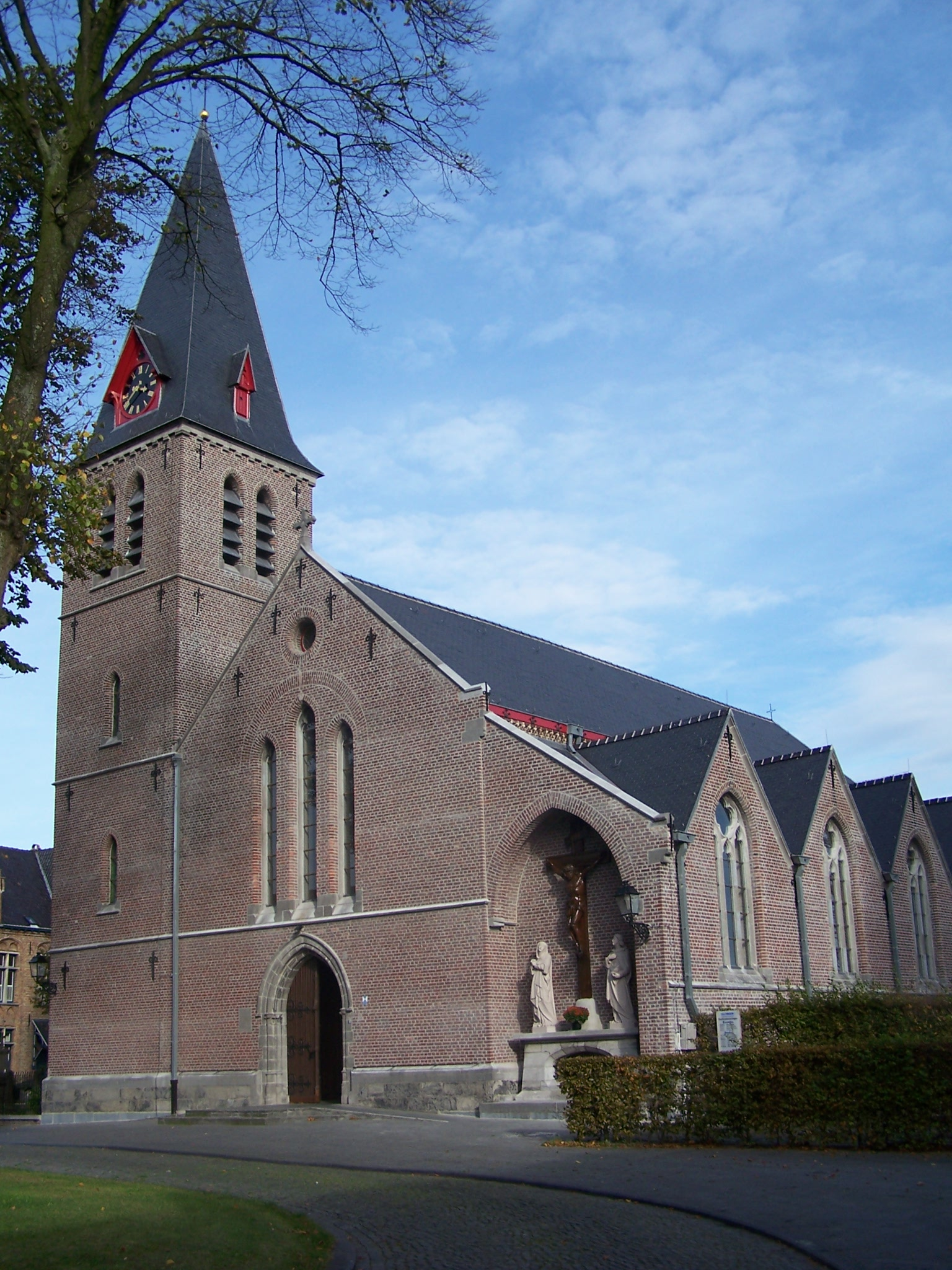 Church of the Immaculate Conception in Ver-Assebroek, after its restauration in 2008. Picture taken from the square before the church